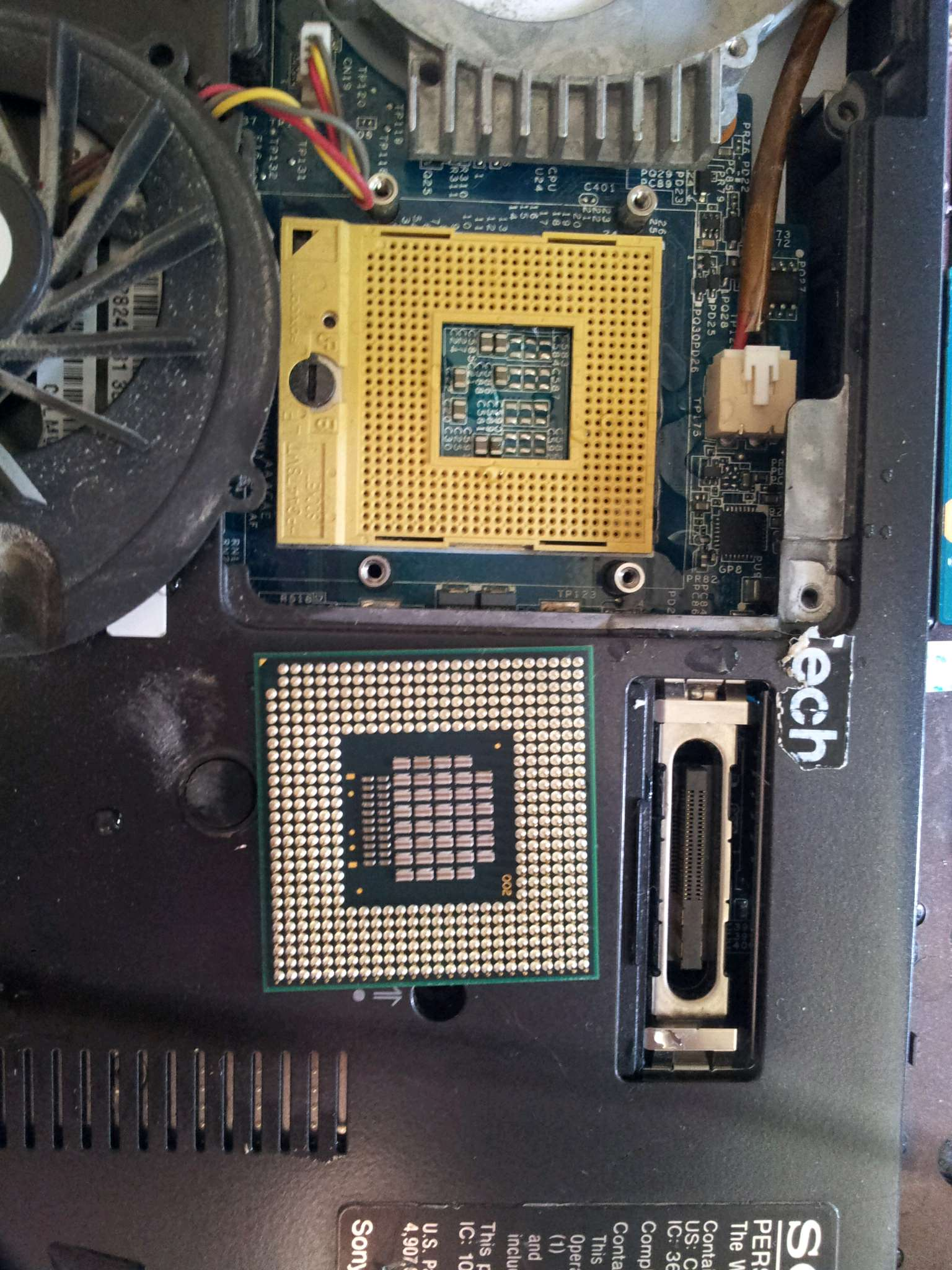 Here we see deattached CPU Core 2 DUO T5500.